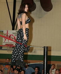 Shannon Spruill AKA Daffney during a Anarcy Championship Wrestling event.